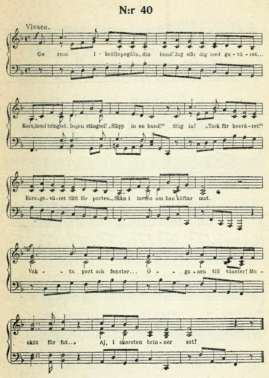 Music for Fredmans epistel no. 40, "Ge rum..." by Carl Michael Bellman, 1790, here in the 1920 Bonniers edition.